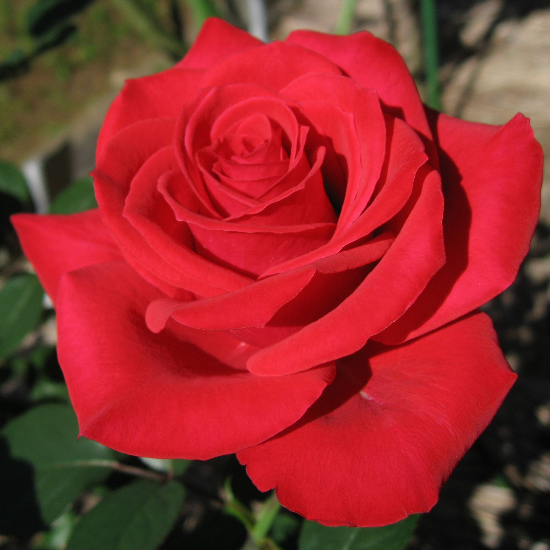 Rosa 'Red Chateau', HT, Kikuo Teranishi (1997) Jingu Rose Garden, Uji-Nakanokiri Ise, Mie Japan.